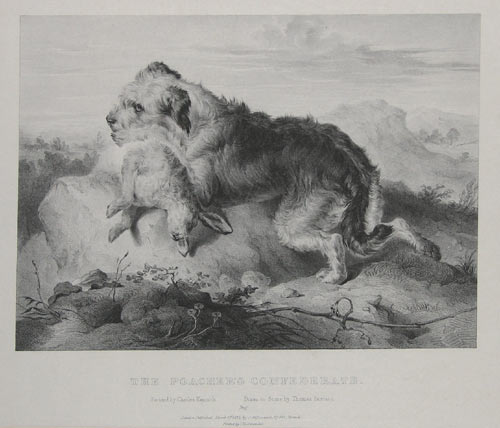 The Poachers confederate (Lithograph)